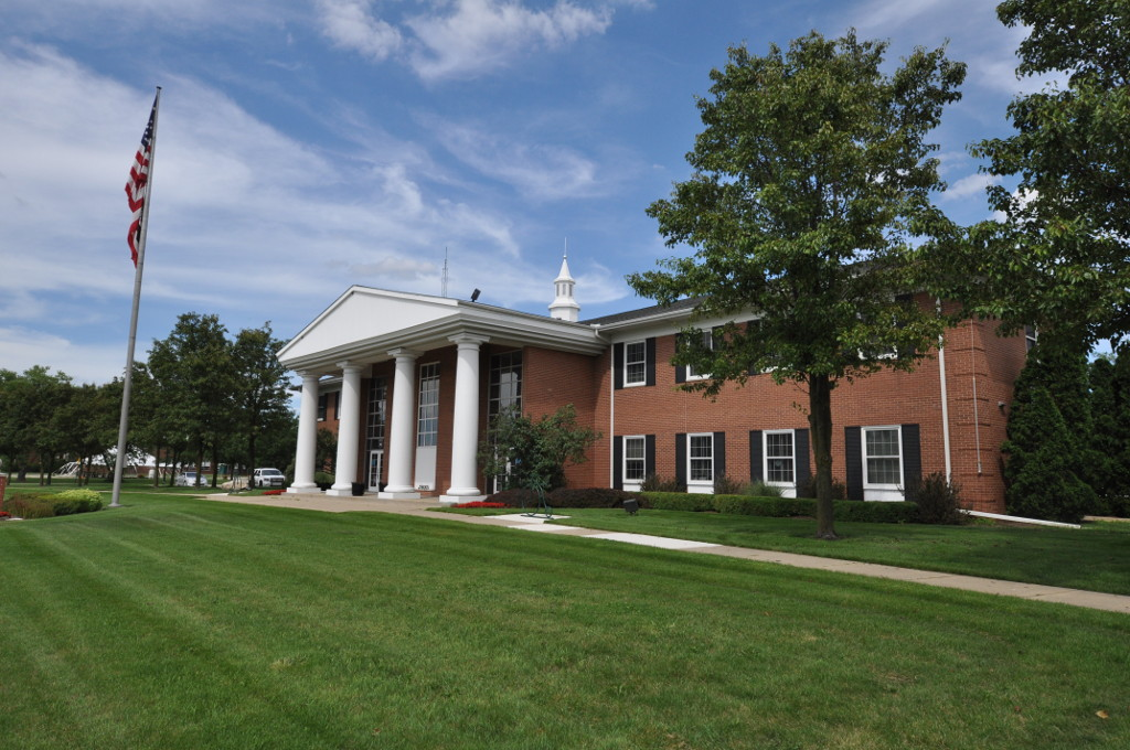 Lathrup Village Historic District, Lathrup Village, Michigan. City Hall.